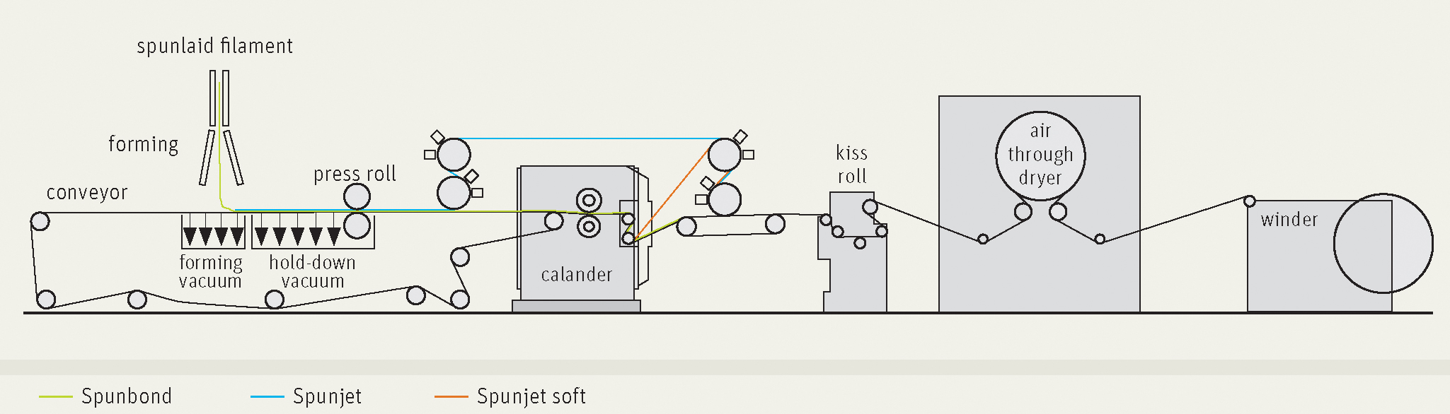 spunjet process